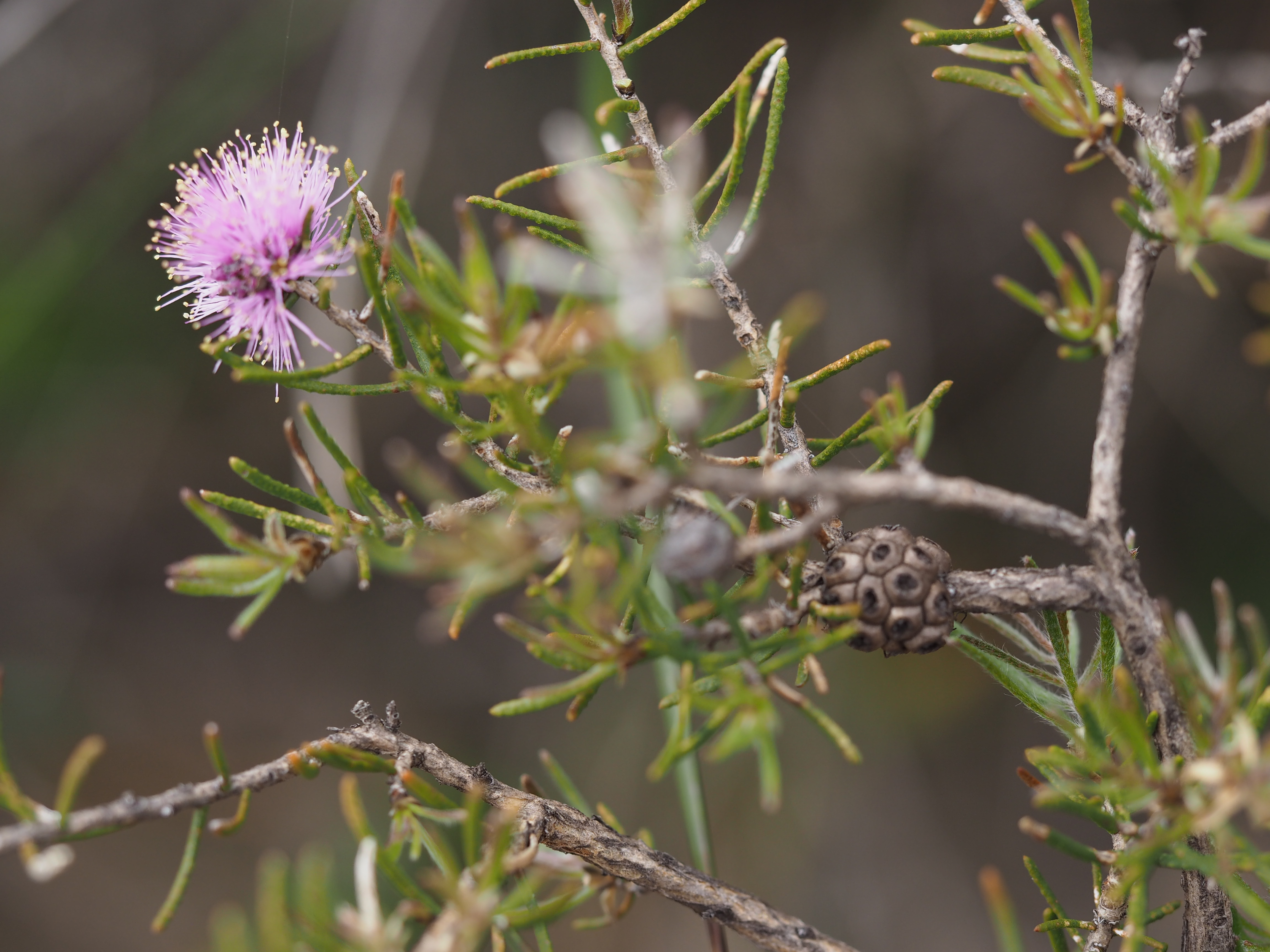 Melaleuca tinkeri growing on the corner of Tabletop Road and Mount Horner West Road near Dongara